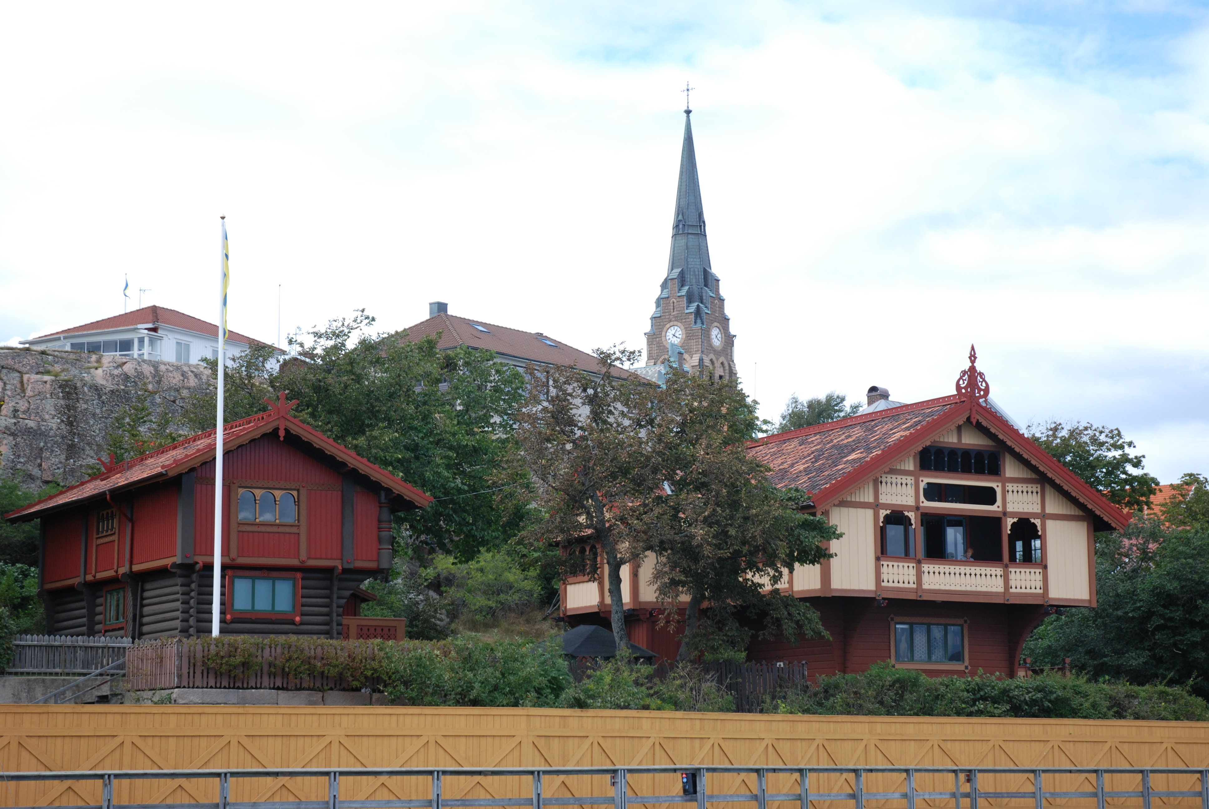 Curmanska villorna i Lysekil